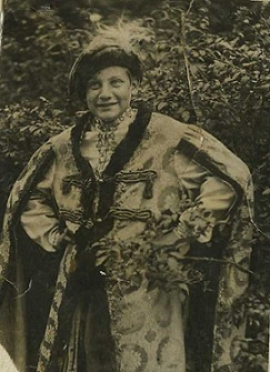 Саша Аронов в костюме школьного спектакля